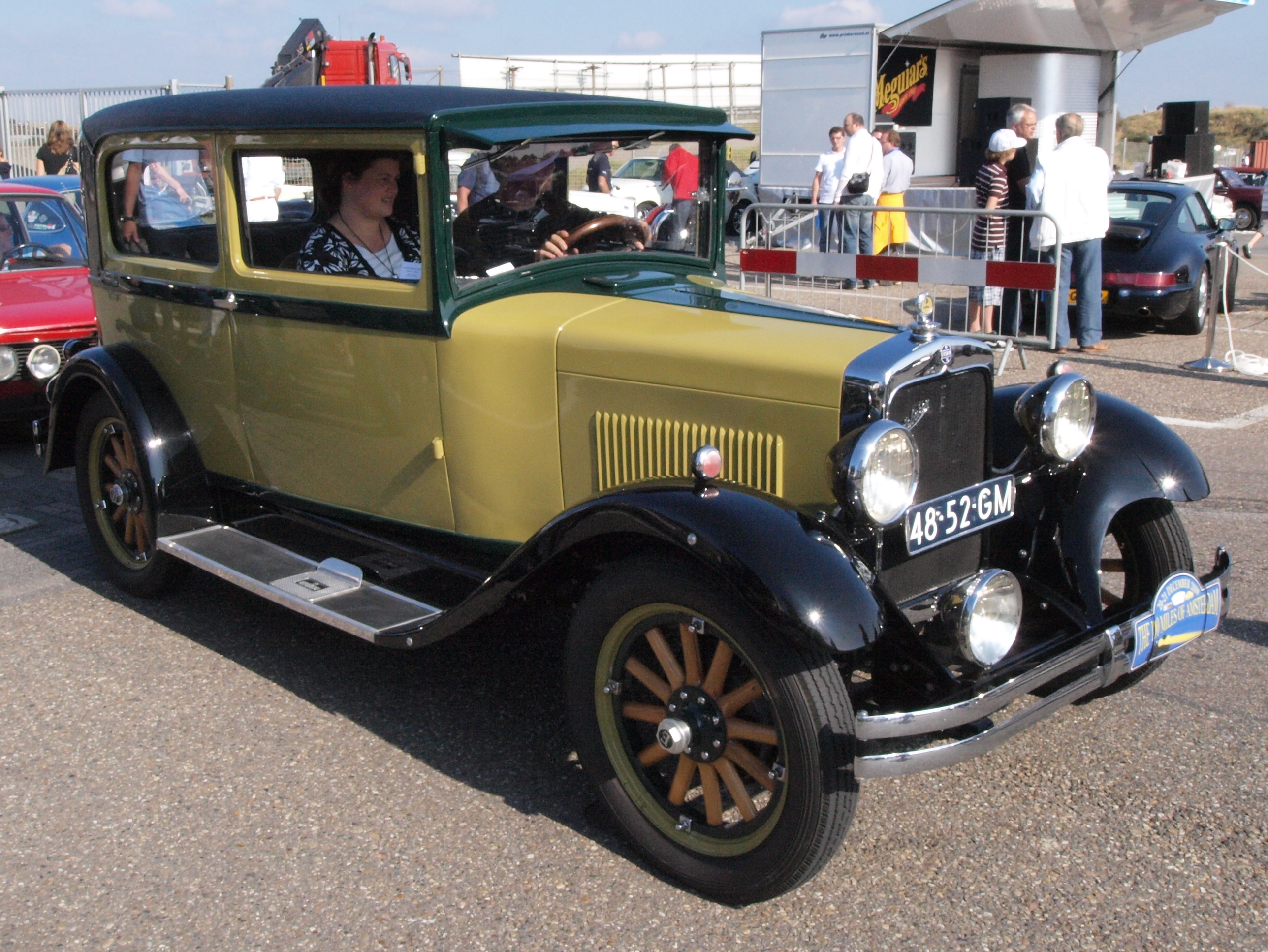 Photographed at the Nationaal Oldtimer Festival Zandvoort 2009, The Netherlands. OLYMPUS DIGITAL CAMERA